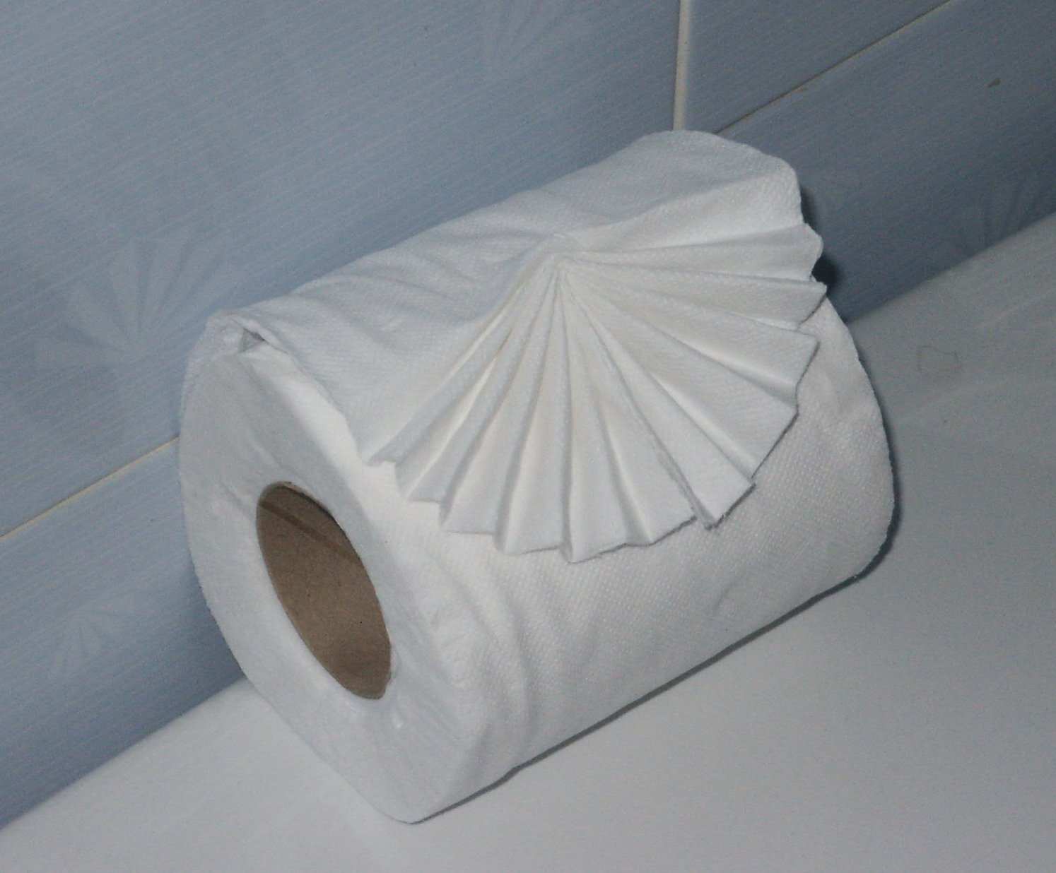 Hotel toilet paper folding, Hotel Club Andaman, Thailand